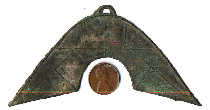 OTHER EARLY MONEY FORMS ca. 400 - 220 BC Cowrie shells (Cyprea moneta & Cyprea anullis) made the transition from adornment to money during the change from Yin to Chou dynasties ca. 1150 B, according to P'eng Xinwei. The I pi, ant nose, or imitation cowrie monies of Chu State were used from the 8th-3rd c. BC, thus contemporary with the oldest knife and spade monies. Apparently they were controversial in Schjoth's day as he did not include them in his coinage section. Halberd money, also known as Ko money, Ge, or Je, is a small, fragile imitation of a weapon combining an ax with a spear, used in.Wu State during Spring & Autumn Annal (c.526-476 BC). Although only recently discovered, they are widely accepted by Chinese archaeologists as money due to an apparent size/denominational structure, and where they are placed in burials. Bridge Money have now been dated to c. 306-221BC and are accepted by many - but not all - Chinese numismatists as actual coins of Ba and Shu States. H 5 . 1 Gold Block "Ying YŸan" Issued by Ying (Capital city of Chu Kingdom). 21.7mm x16.1mm, 18.297gm H 5 . 20 Bridge Money a.k.a. Ch'ing or Tingle-tangle. Variety: Looped, with design. Design of straight lines, Provenance: ex-Kobayagawa/DuBois, 1912 116mm, 7.45gm C6681v Provenance: Jun Kobayagawa Co. (Japan) via W.M. DuBois collection, 1912